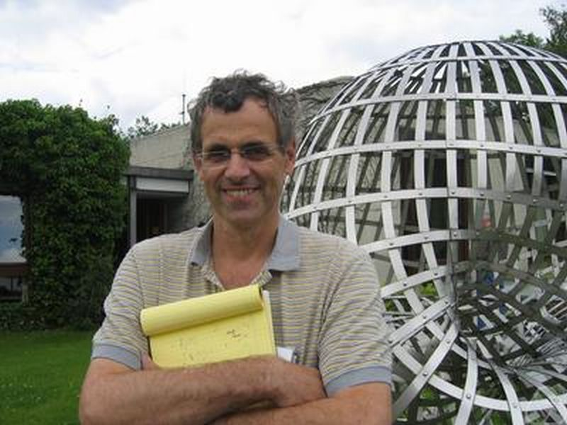 Ofer Zeitouni, Oberwolfach 2008